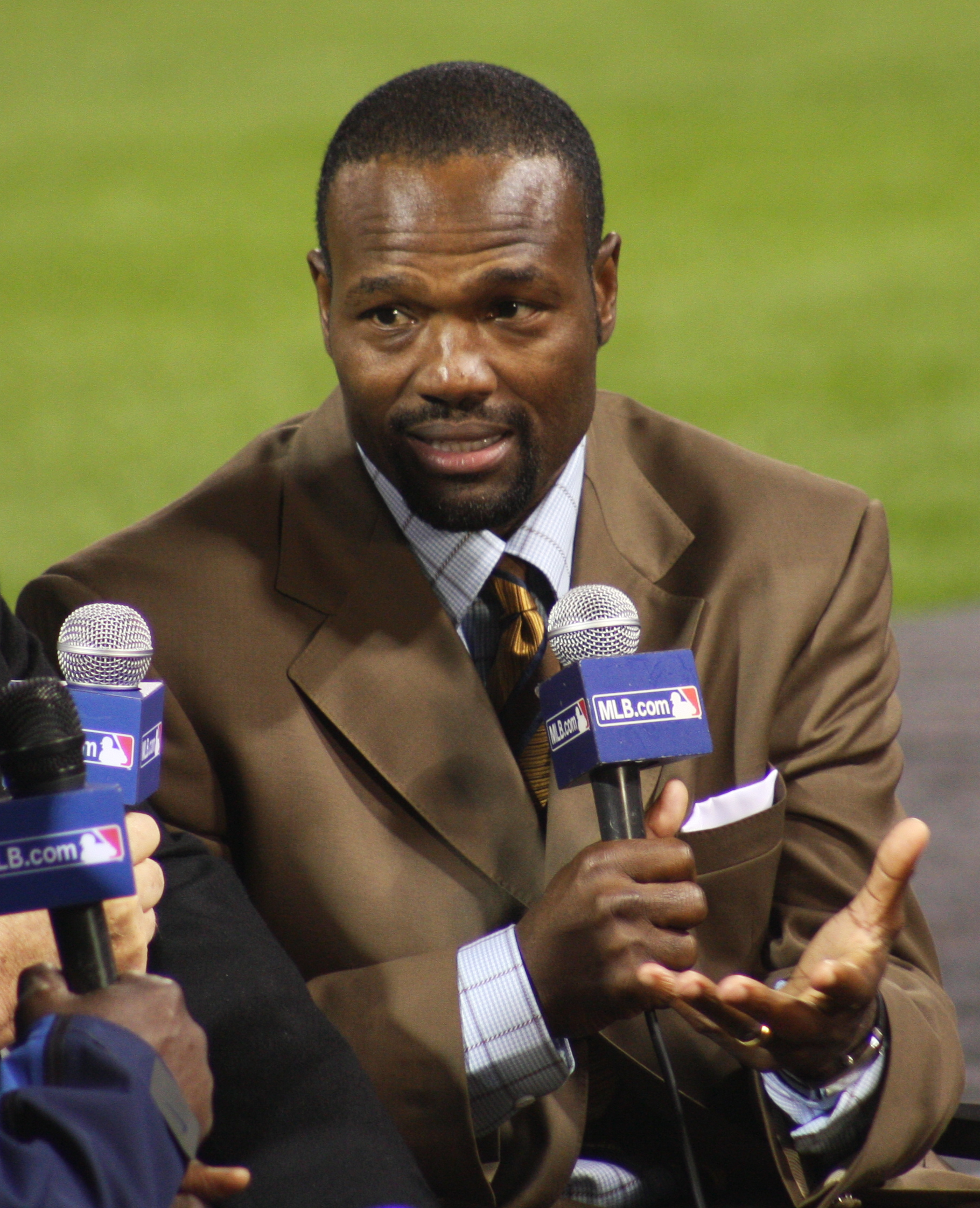 MLB NEtwork broadcaster Harold Reynolds.